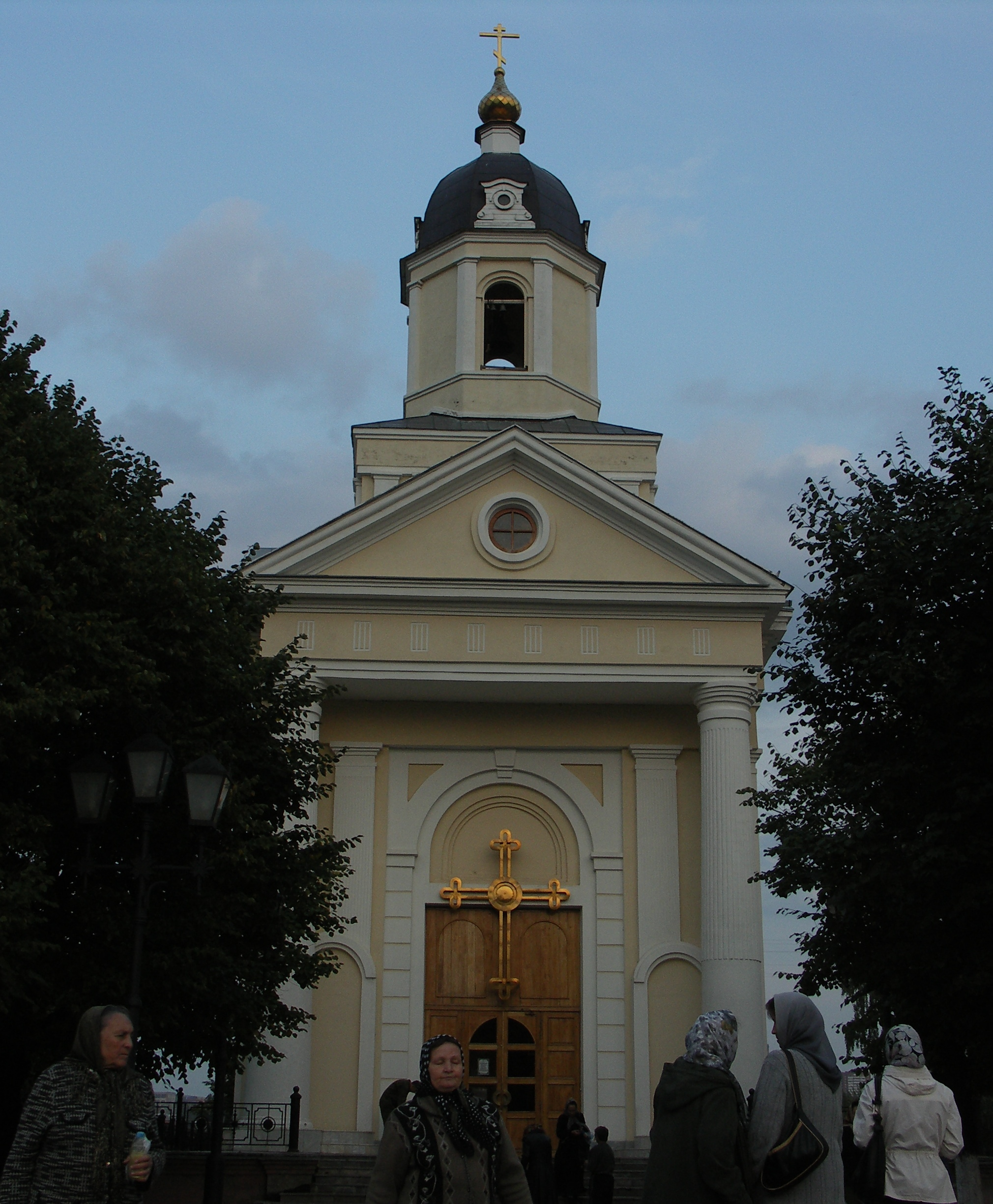 A church in Cheboksary. Taken by Robert Broadie on 17 September 2005.